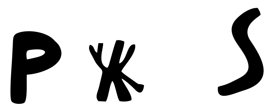 Signature Peter Schros from 1520 at the tombstone Heinrich Meyerspach, Frankfurt-Höchst, Justinuskirche, baptistery